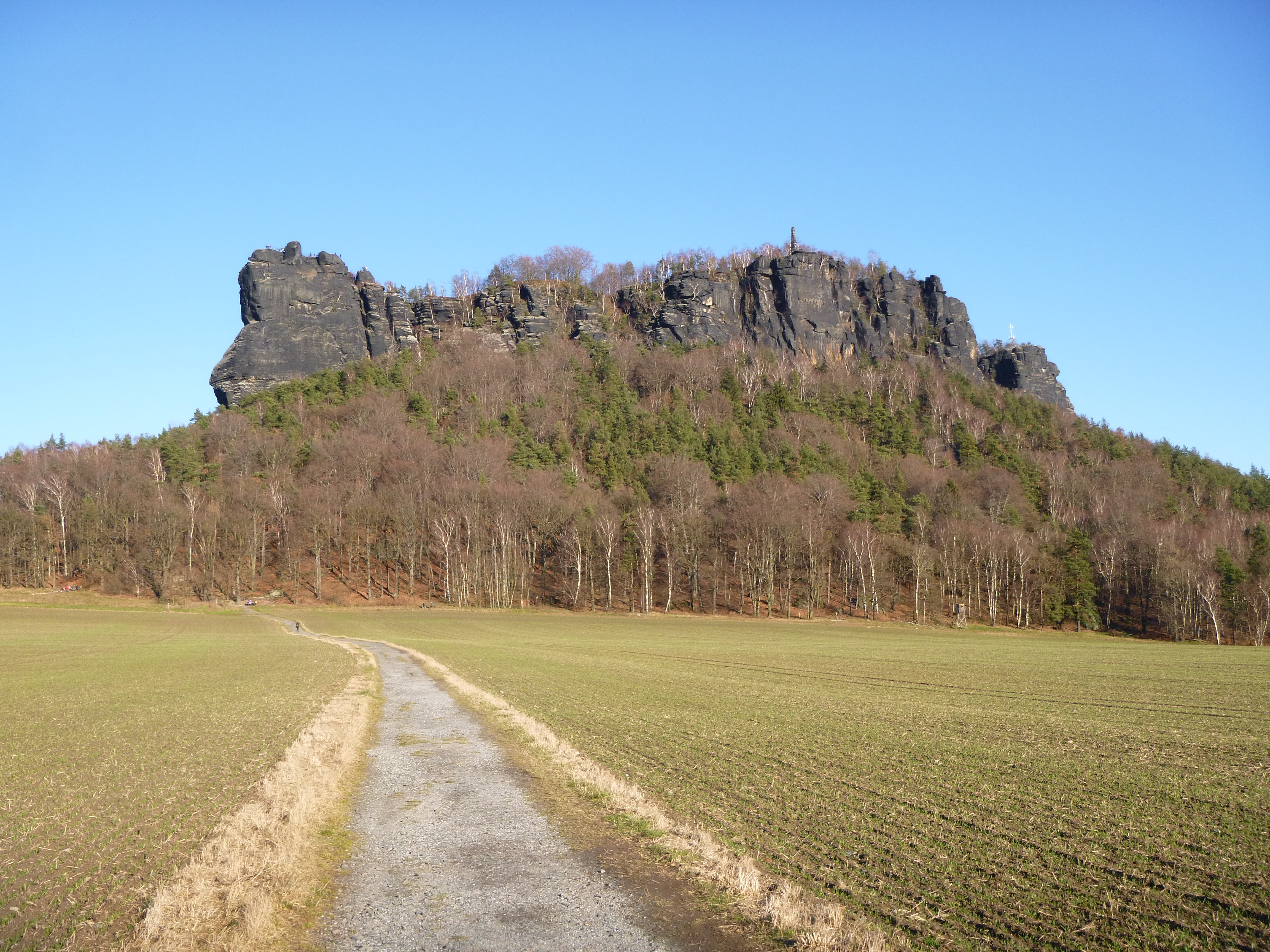 Lilienstein mit Nord-West-Spitze, Wettinobelisk und Funkturm